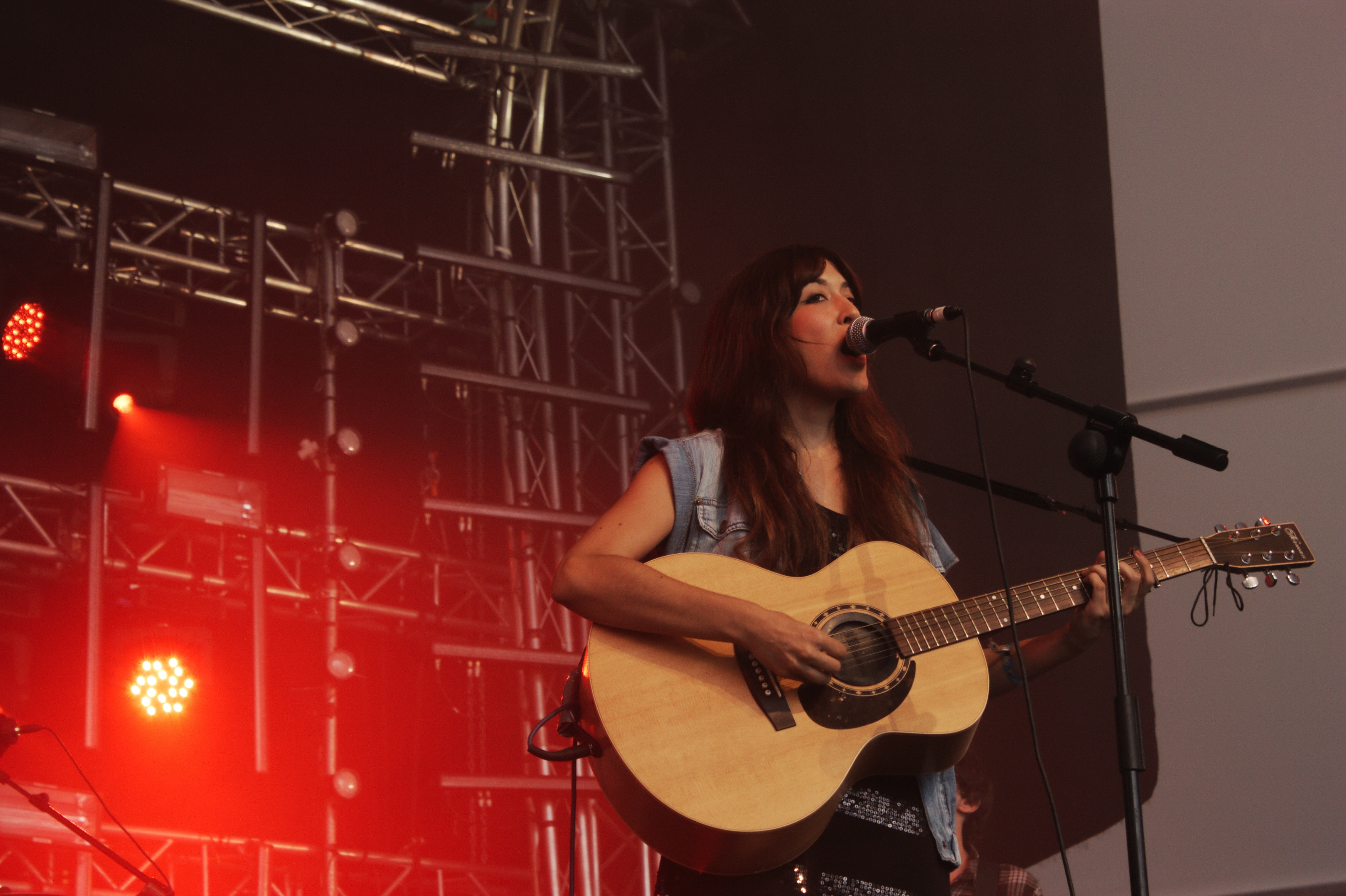 The spanish singer "Anni B Sweet" at the International Festival of Benicassim 2009